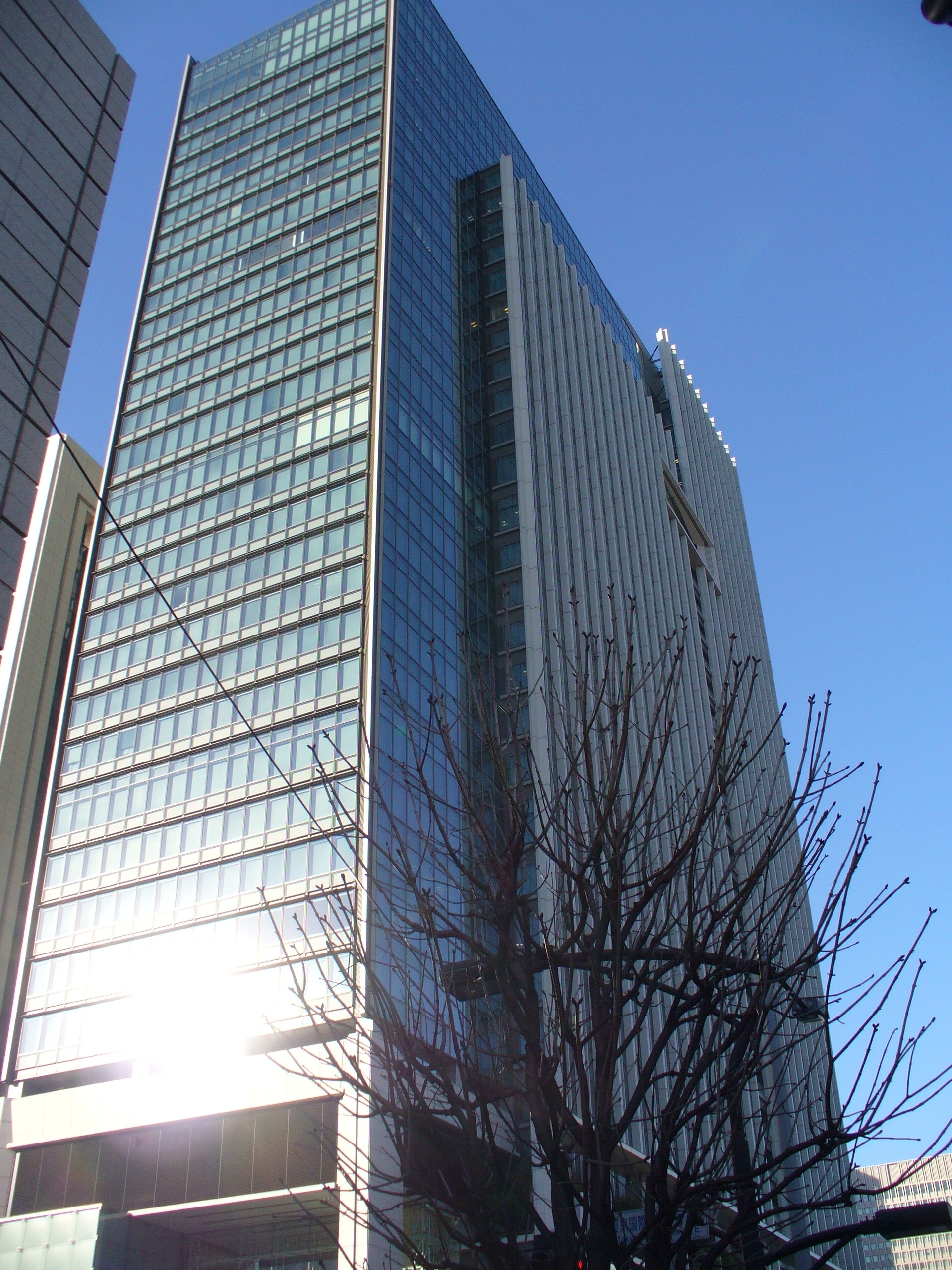 Tokyo Building